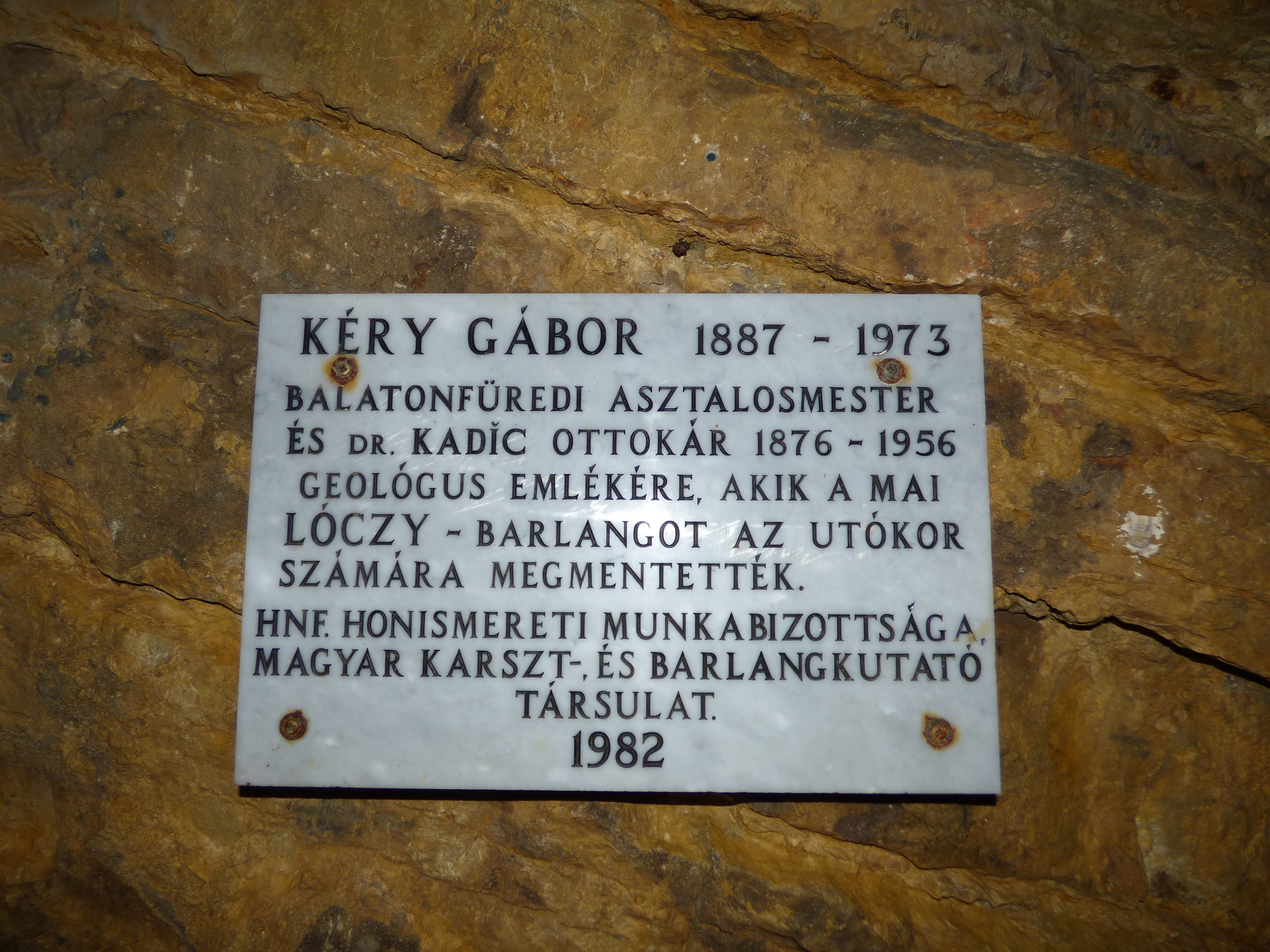 Lóczy-barlang 2016 02 Kéry Gábor emléktáblája